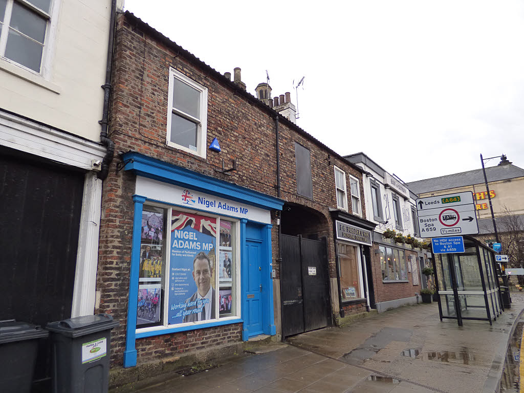 Shops with archway, High Street, Tadcaster